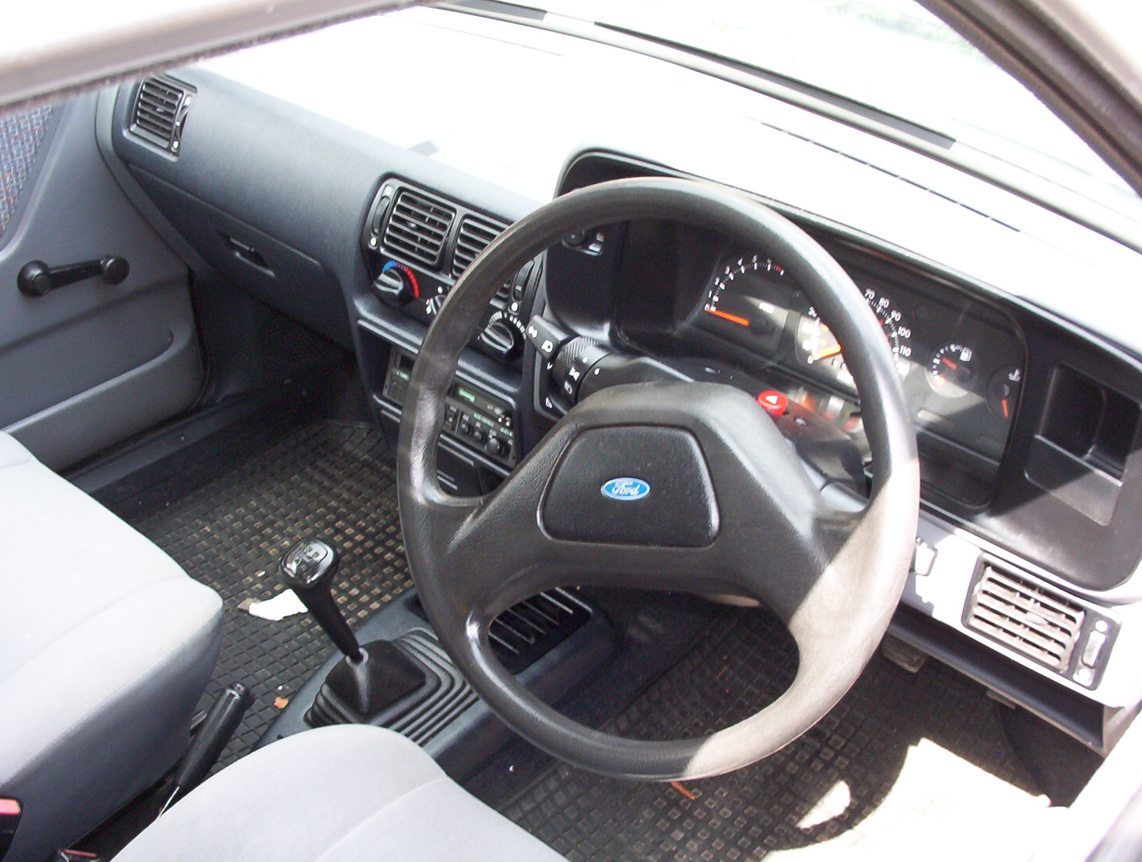 My first car. Not much, but then it was free.